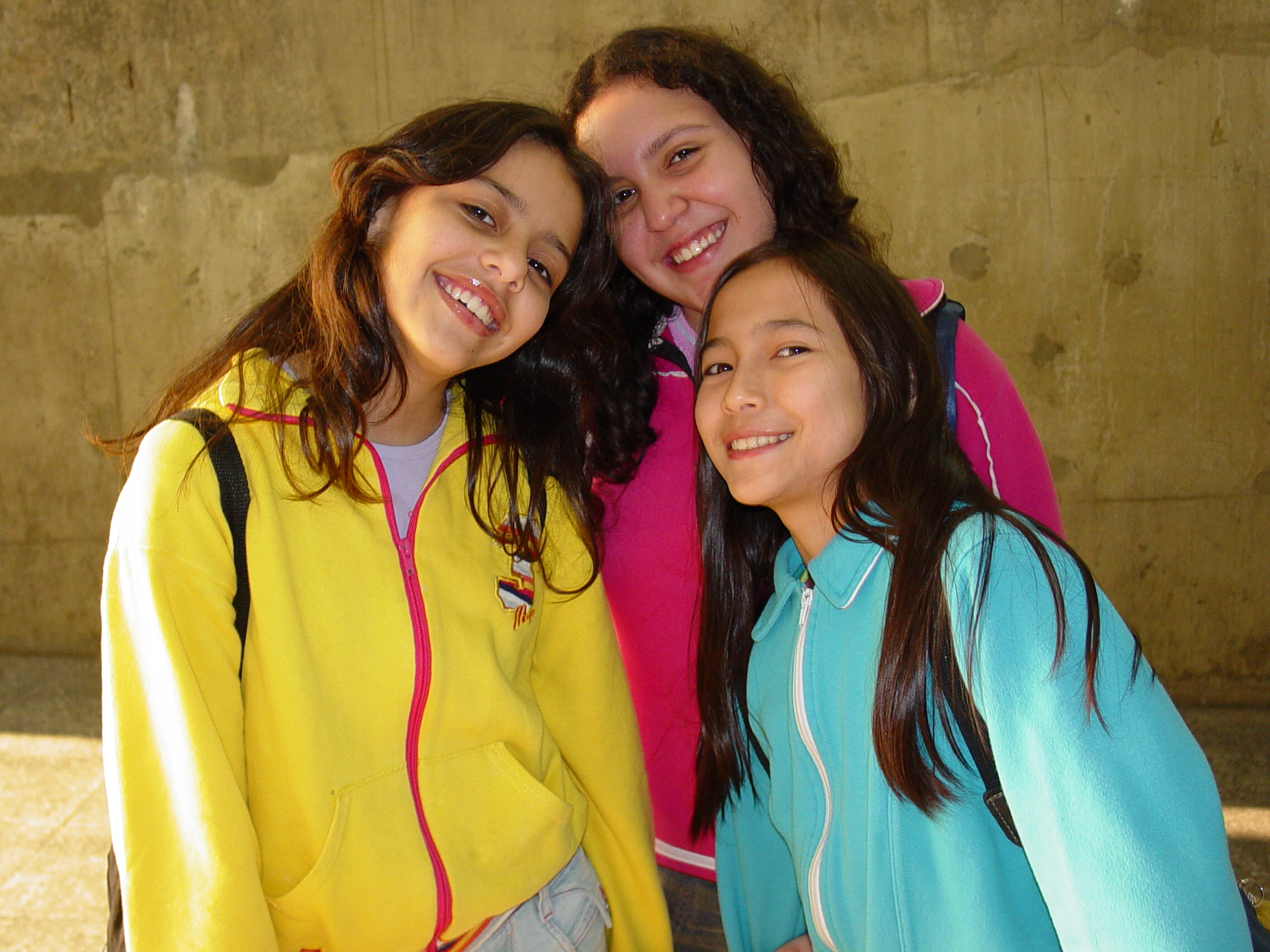 Young girls in Sao Bento metro station, Sao Paulo, Brazil. July 2006.